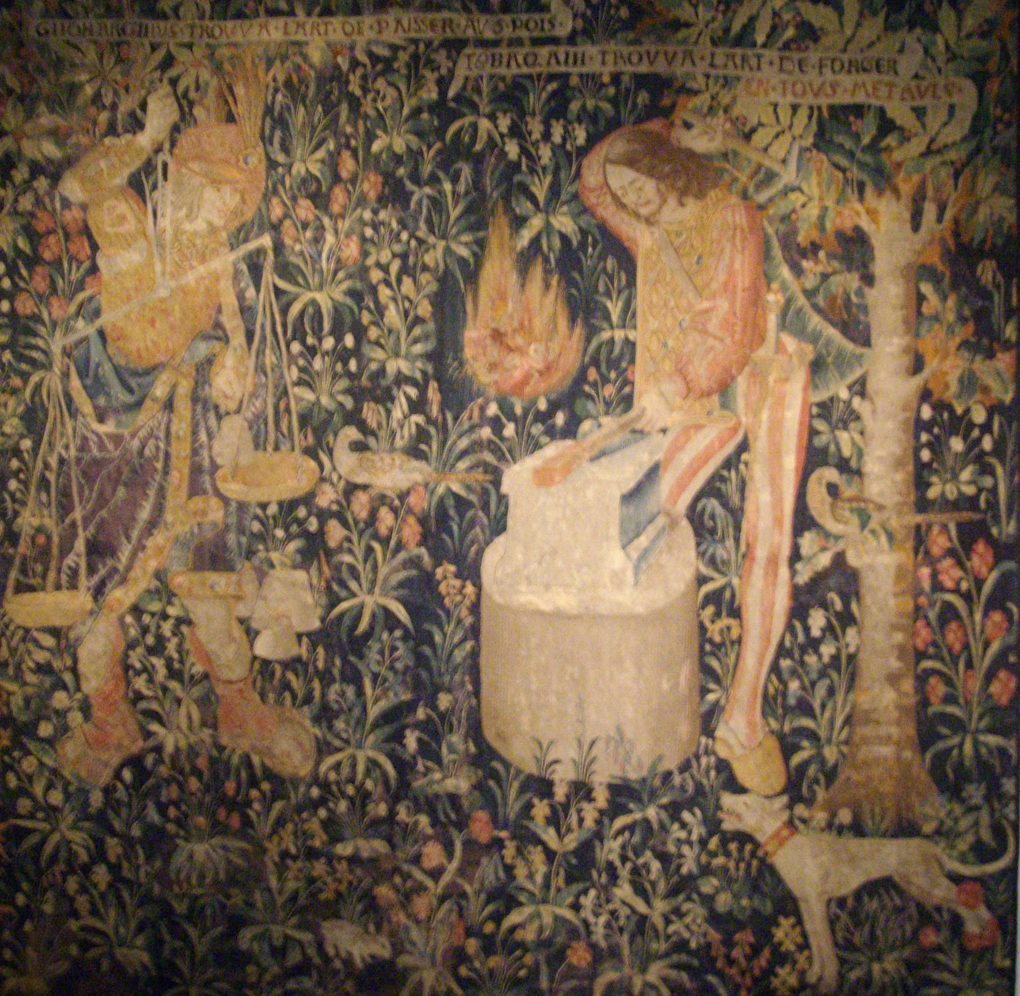 Giohargius and Tubalcain